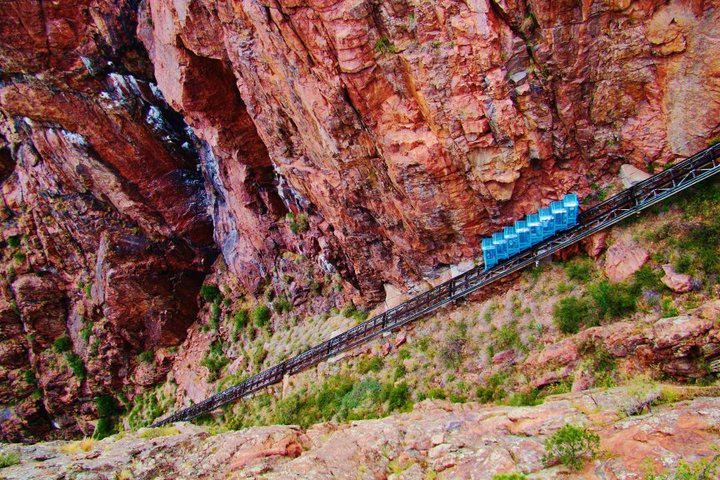 Royal Gorge Incline Railway descends into Royal Gorge near Cañon City, Colorado.